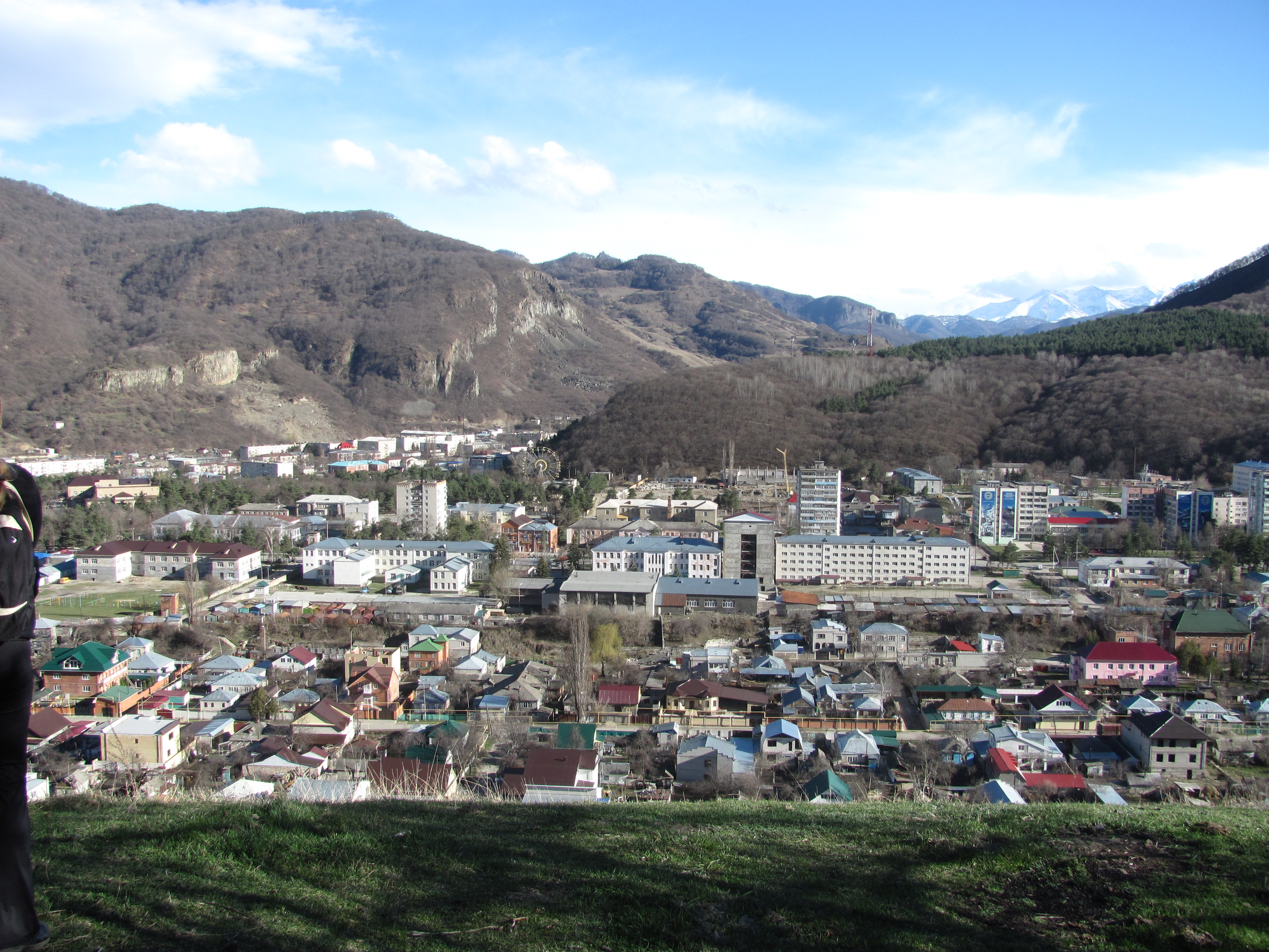 View of Karachayevsk, Karachay-Cherkessia